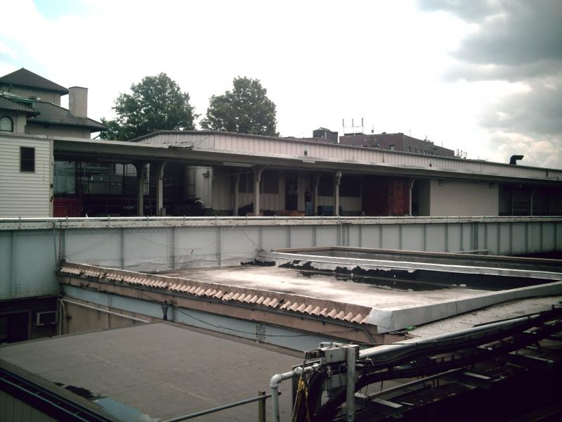 The 180th Street platforms for the New York, Westchester, and Boston Railway